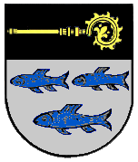 Coat of arms of Klosterreichenbach in Baiersbronn